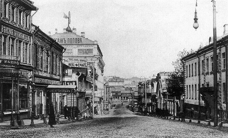 Kuznetsky Most. View from Rozhdestvenka Street southwest, to Neglinnaya Street